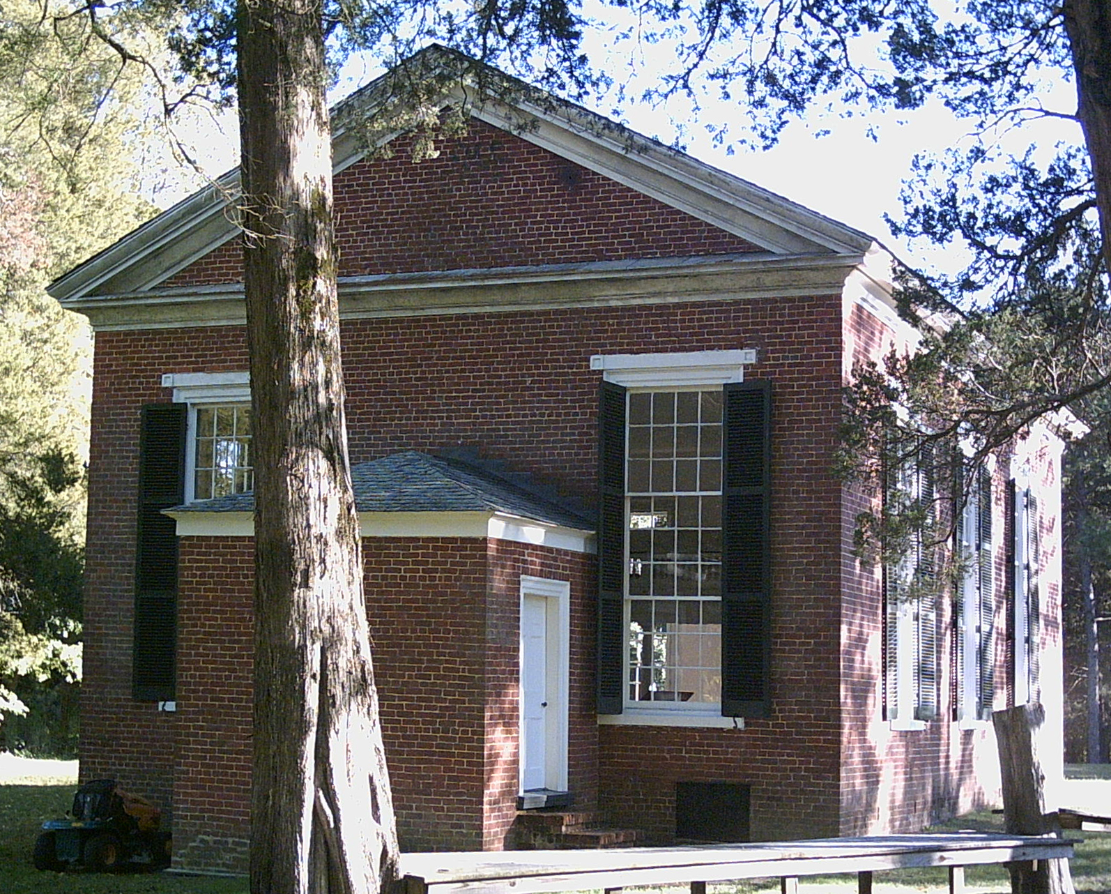 Grace Church (Ca Ira, Virginia), rear elevation